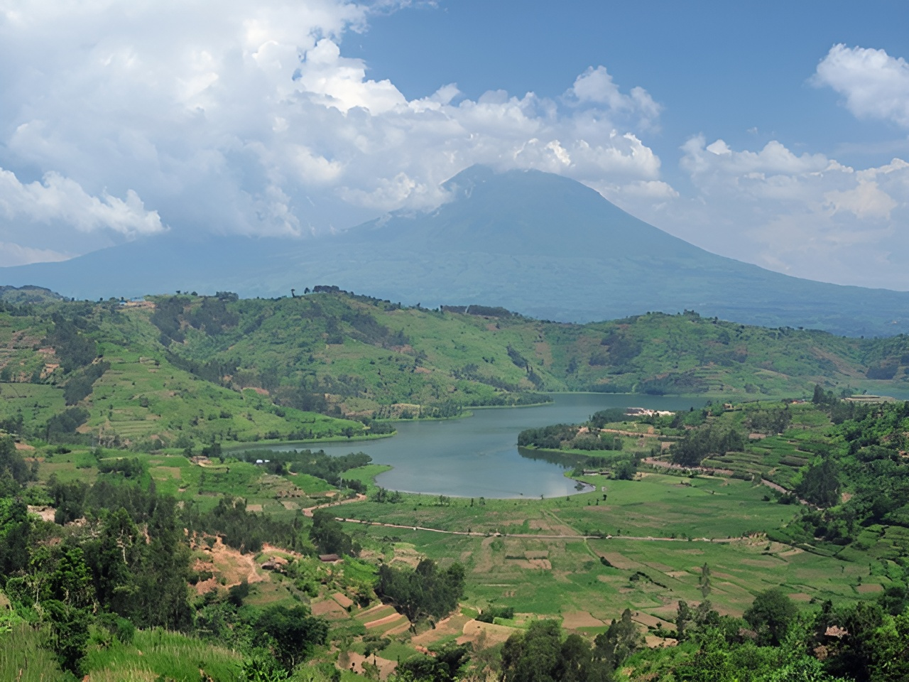 Pic by Neil Palmer (CIAT). General view of northwestern Rwanda, where CIAT's climbing beans have been widely adopted. Please credit accordingly.